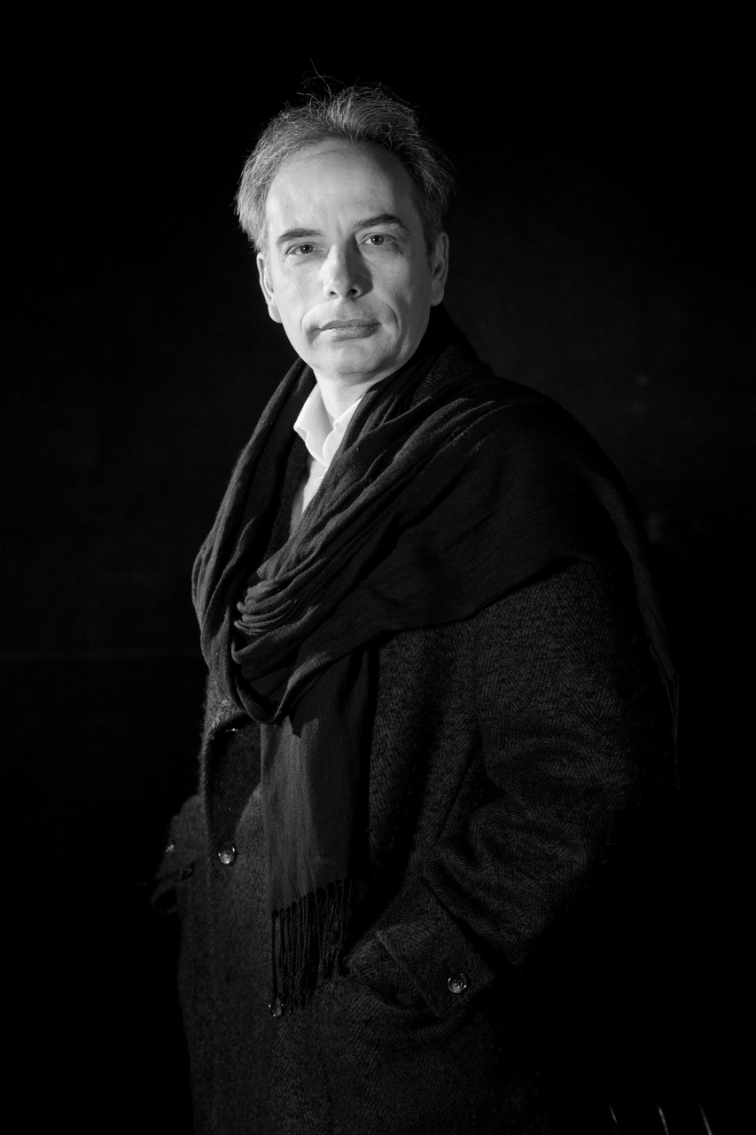 Aleksandar Gajin Srpski (latinica): Aleksandar Gajin Српски (ћирилица): Александар Гајин